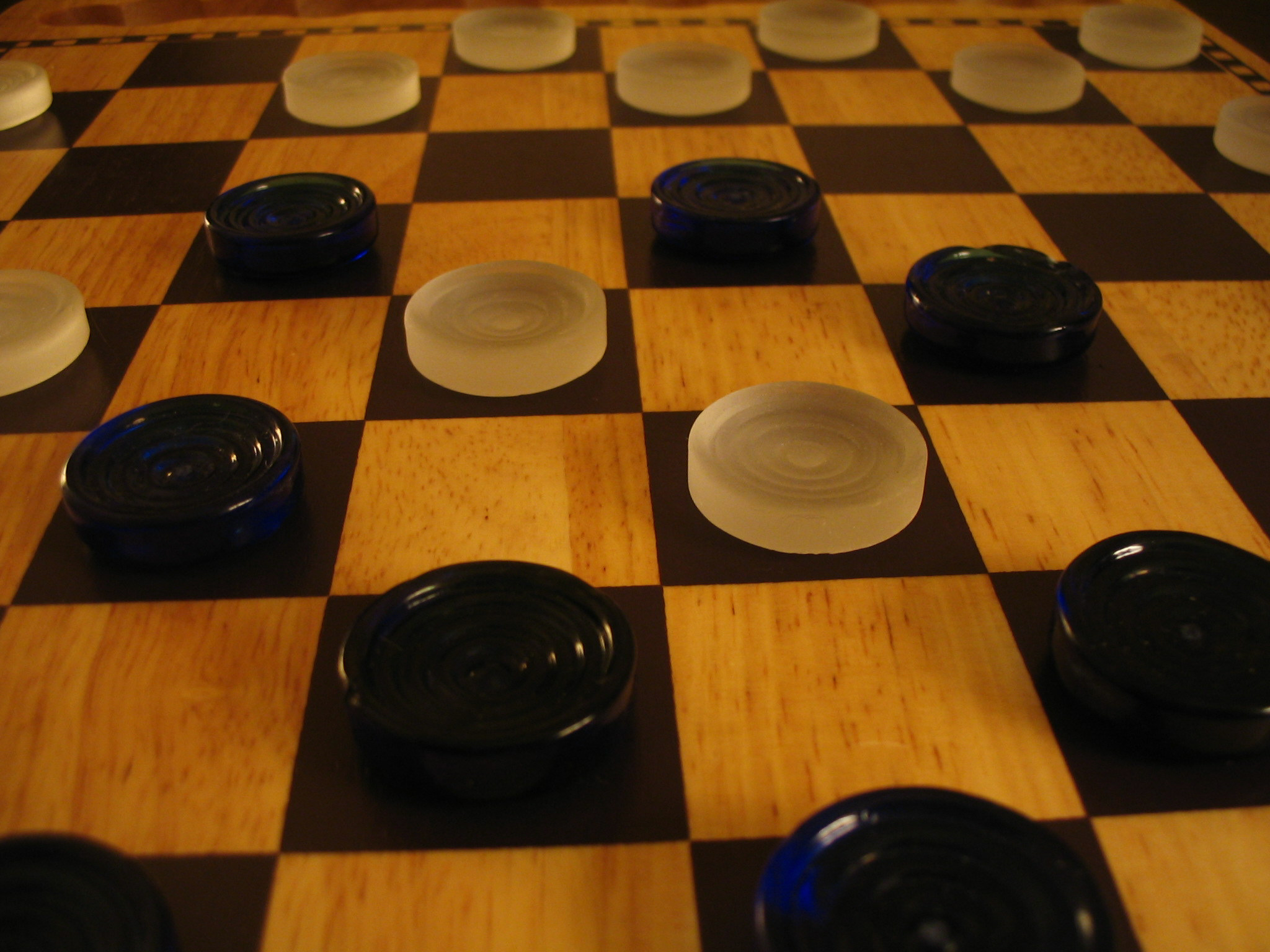 A game of checkers.